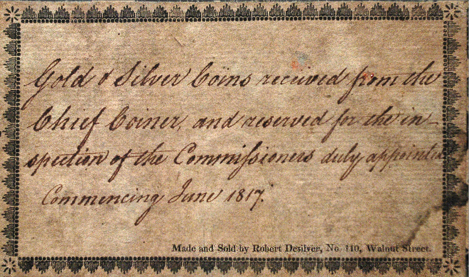 Label on Assay Commission journal, 1817